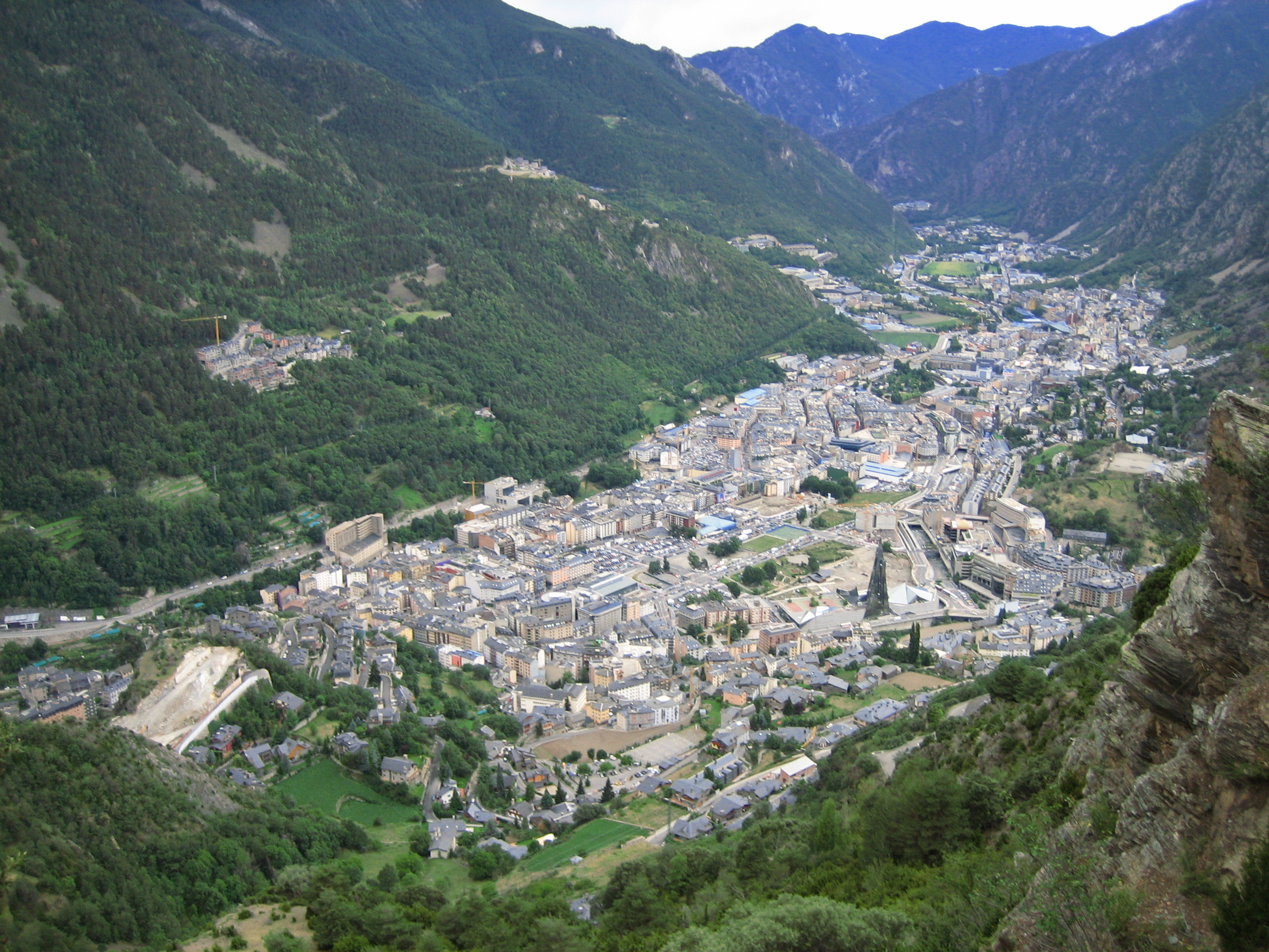 View of Andorra la Vella and Escaldes-Engordany (Andorra) from the Pic de Padern flank, Escaldes-Engordany